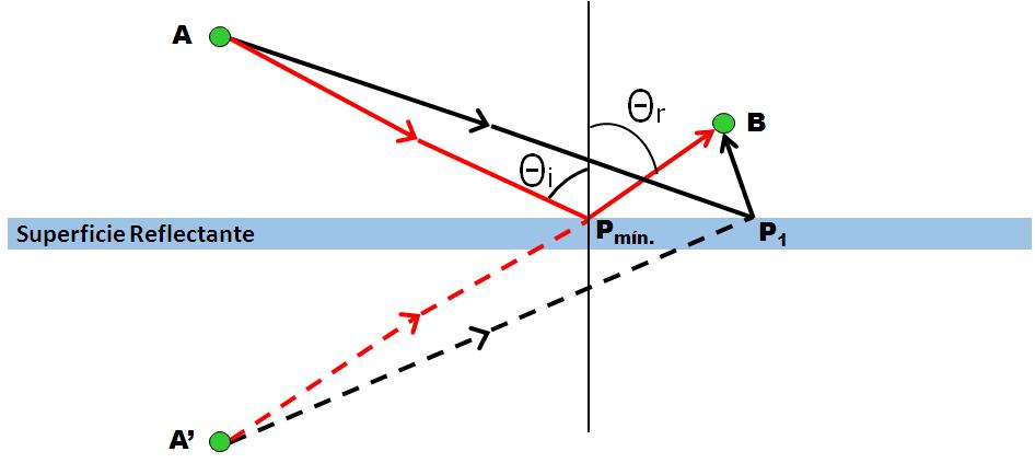 Fermat´s principle